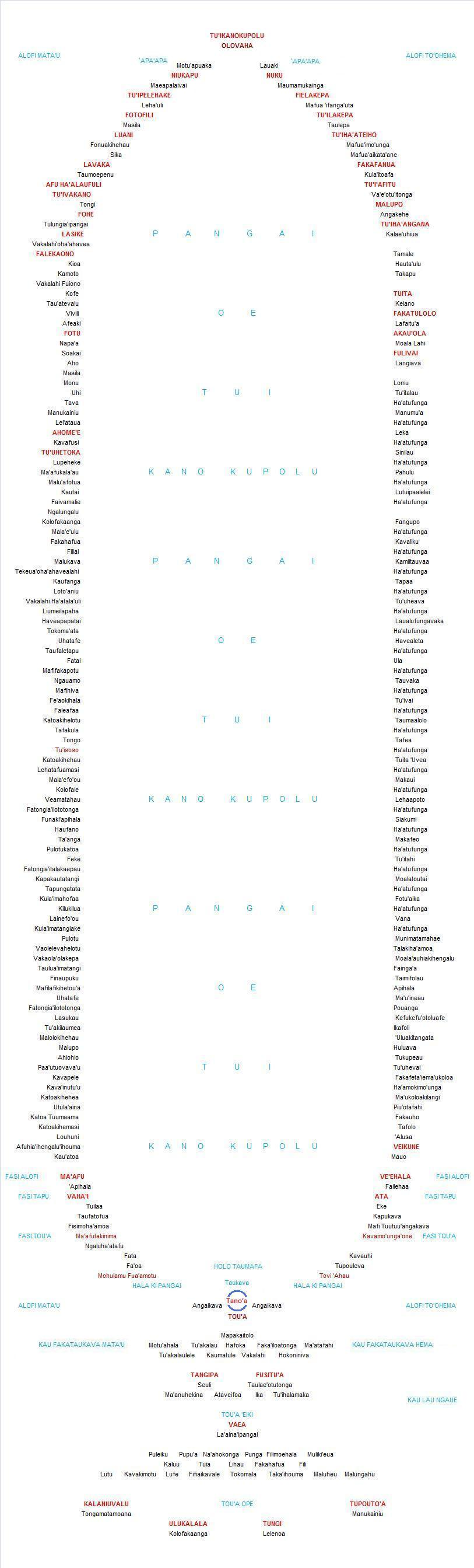 Seating Positions of Chiefs and Nobles at a 'Taumafa Kava' Ceremony.